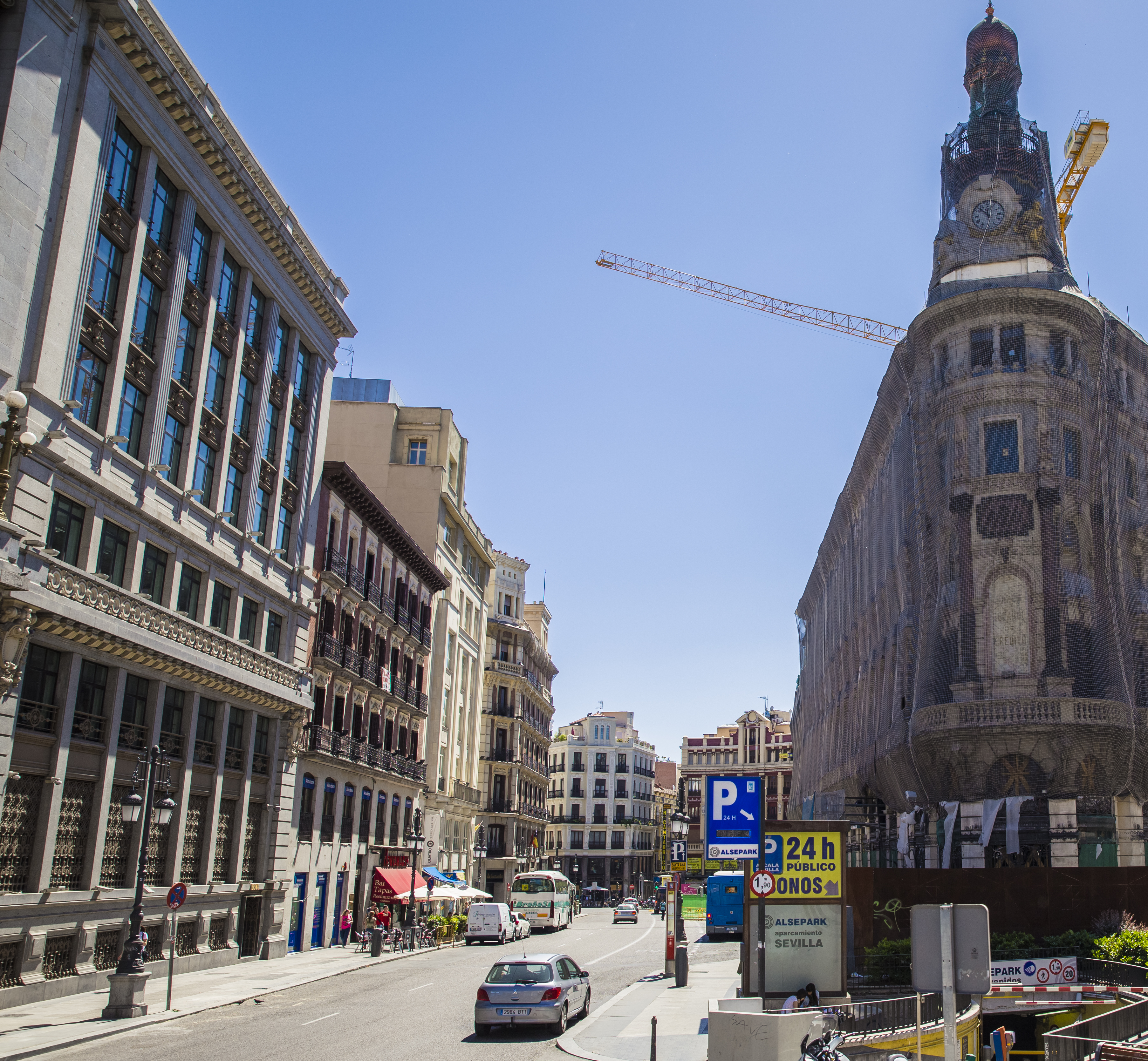 Tour around the City of Madrid Spain